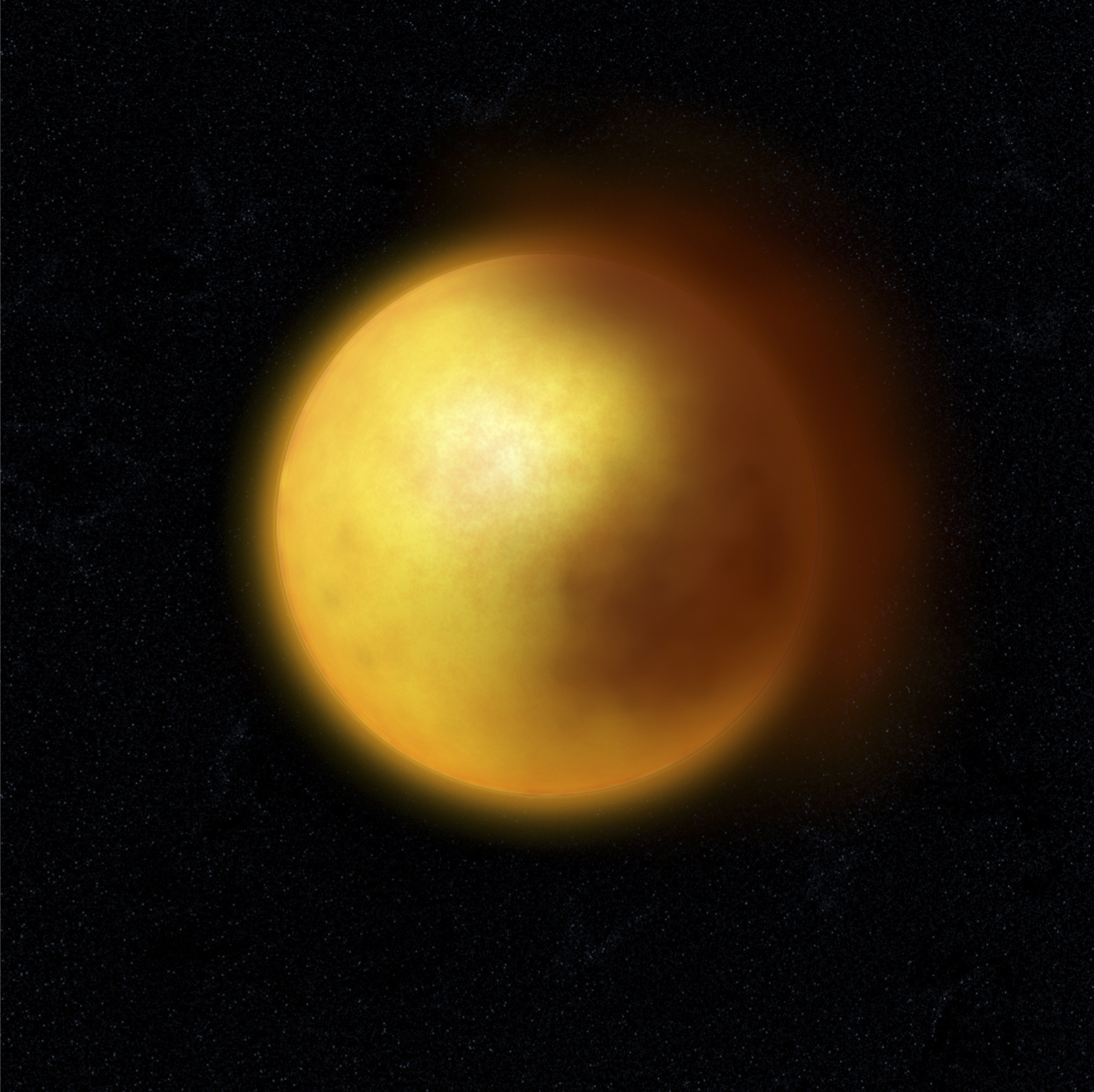 Artist rendering of the surroundings of a R Coronae Borealis star, as inferred from the observations obtained with ESO's Very Large Telescope. Such stars show erratic variability that is thought to arise from the presence of large clouds of dust in their envelope.